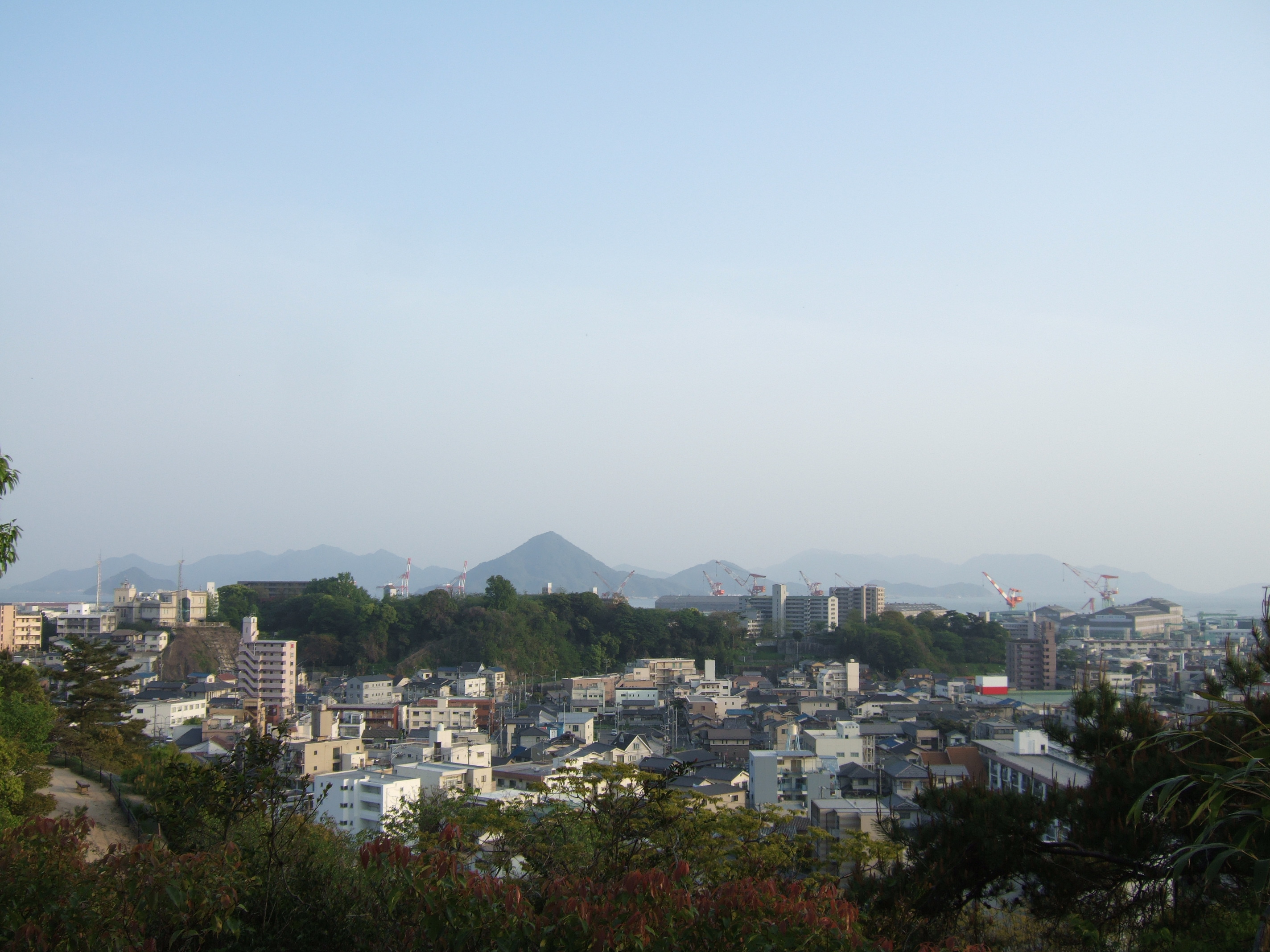 Ebayama Park(Mount Eba)